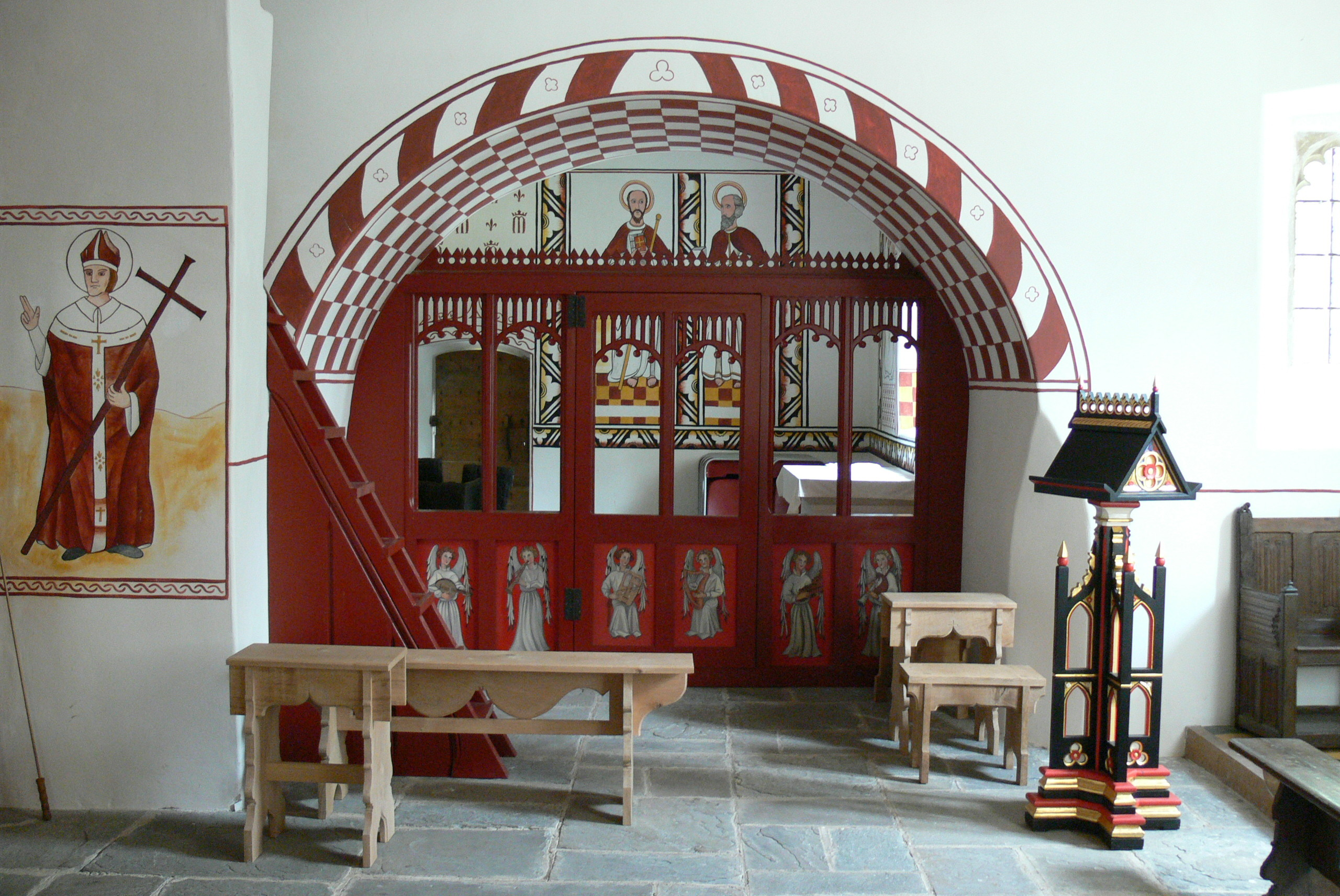 St.Fagans National History Museum ( Cardiff ). Saint Teilo church - Interior: Side chapel with reconstructed medieval paintings.